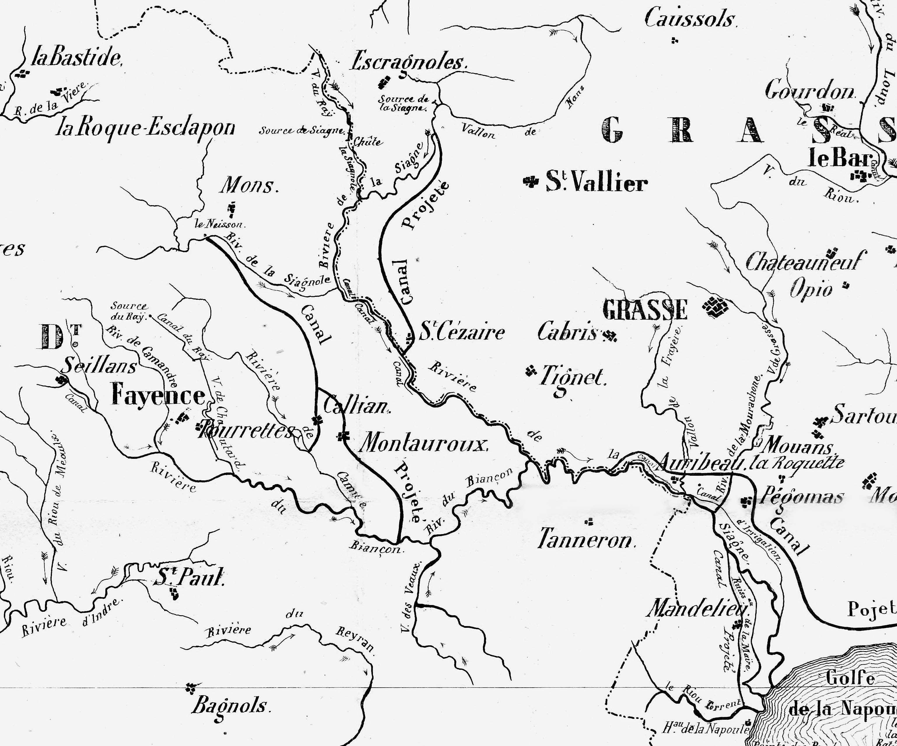 Rapport Bosc, 1845, private collection